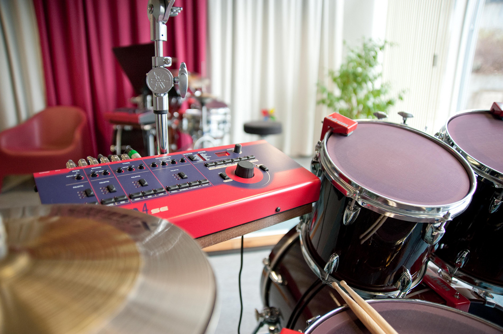 Clavia ddrum4 SE (discontinued) Note: Clavia DMI AB manufactured digital drums under the ddrum brand between 1983 and 2005. At now, Clavia is no longer associated with ddrum, and ddrum drum trigger units are dealt by . Copyright by Sascha Jäggi References Fredrik Hägglund (circa 2006). Propellerhead 10 year anniversary interview. Propellerhead Software AB. "Marcus: Meanwhile I had landed a job at Clavia, where I worked on the ddrum and Nord Lead series in the daytime."